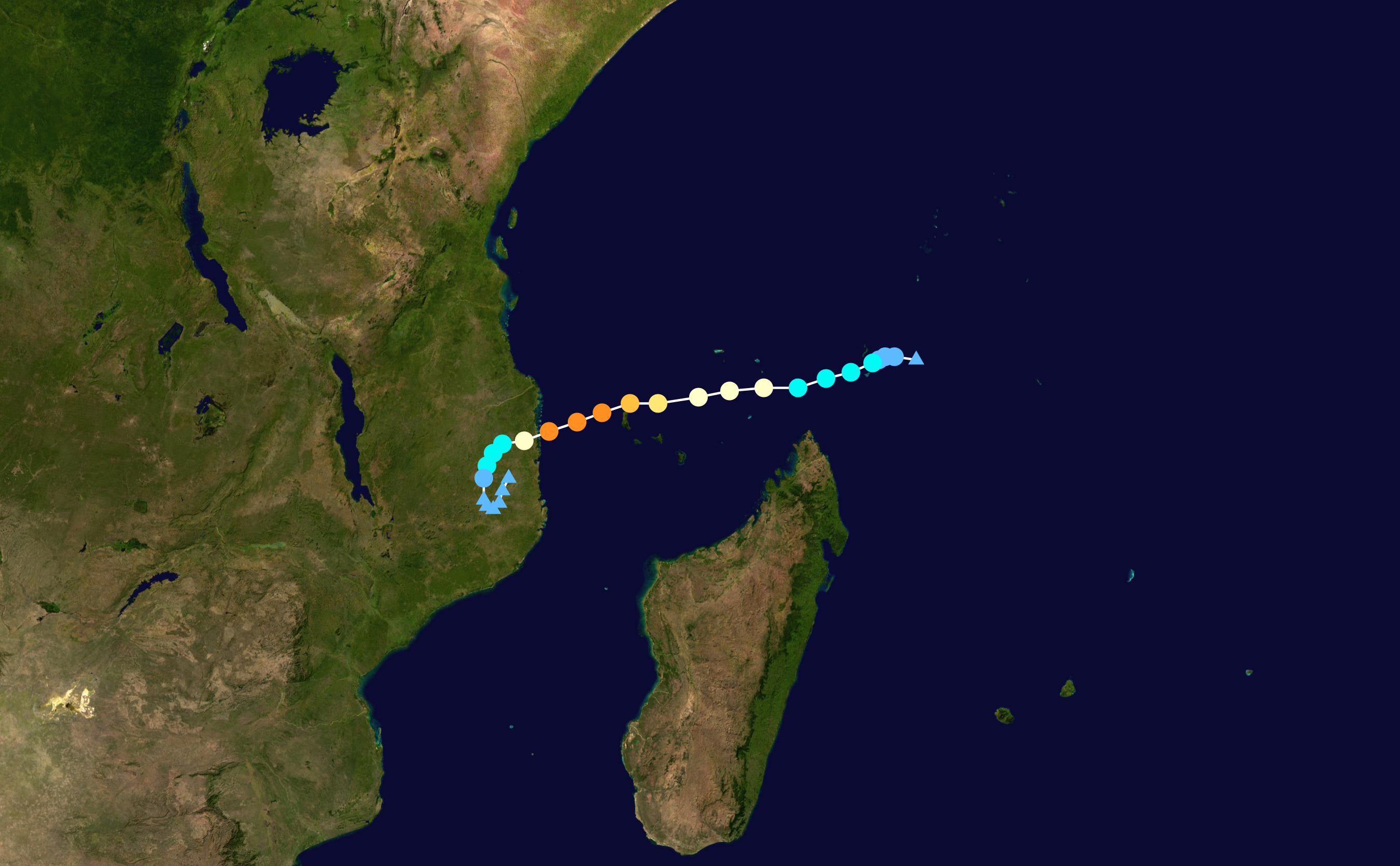 Track map of Intense Tropical Cyclone Kenneth of the 2018-19 South-West Indian Ocean cyclone season. The points show the location of the storm at 6-hour intervals. The colour represents the storm's maximum sustained wind speeds as classified in the Saffir–Simpson scale (see below), and the shape of the data points represent the nature of the storm, according to the legend below. Saffir–Simpson scale Tropical depression≤38 mph≤62 km/h Category 3111–129 mph178–208 km/h Tropical storm39–73 mph63–118 km/h Category 4130–156 mph209–251 km/h Category 174–95 mph119–153 km/h Category 5≥157 mph≥252 km/h Category 296–110 mph154–177 km/h Unknown Storm type Tropical cyclone Subtropical cyclone Extratropical cyclone / Remnant low / Tropical disturbance